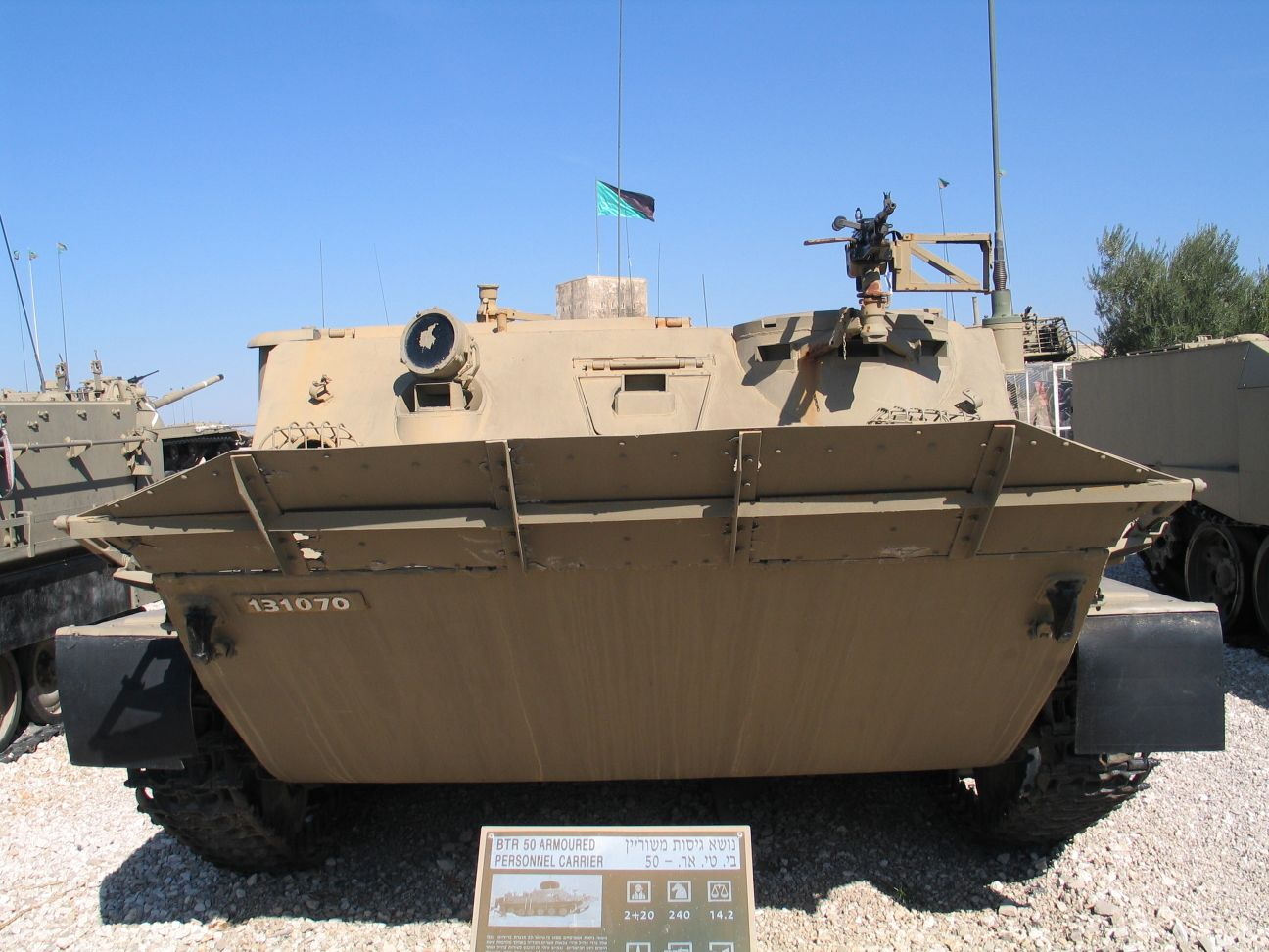 Description: BTR-50PK APC in Yad la-Shiryon Museum, Israel. 2005. Source: Photo by me, User:Bukvoed